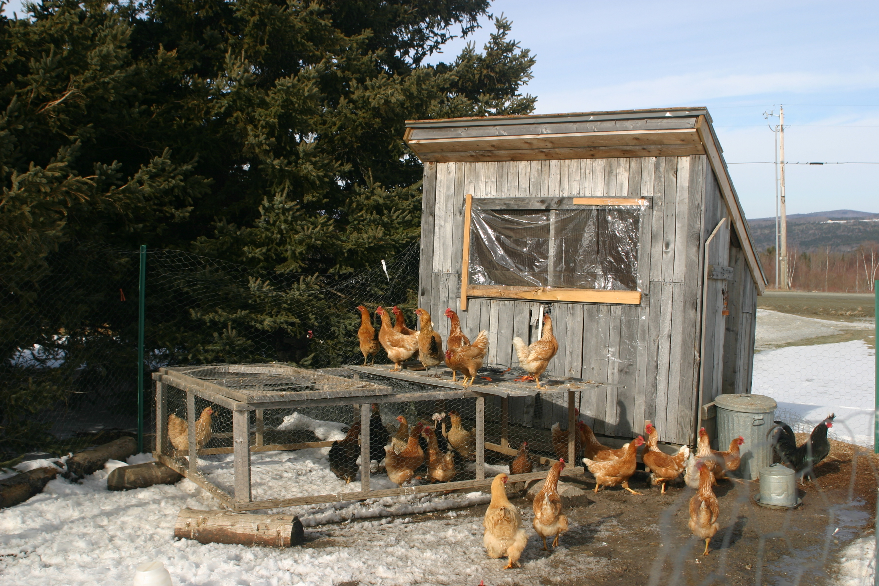 A chicken coop.